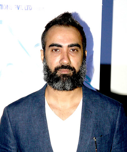 Ranvir Shorey at the press meet for the Hindi film Blue Mountains